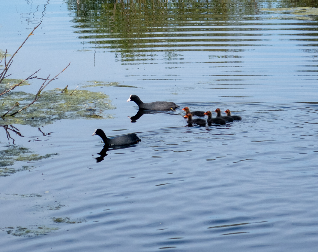 Fulica atra in the pond at the Trascianka river (border of Minsk and Maly Trascianiec village, Belarus)